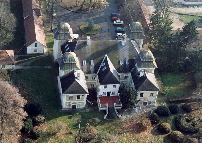 Dőry Mansion - Girincs - Hungary - Europe